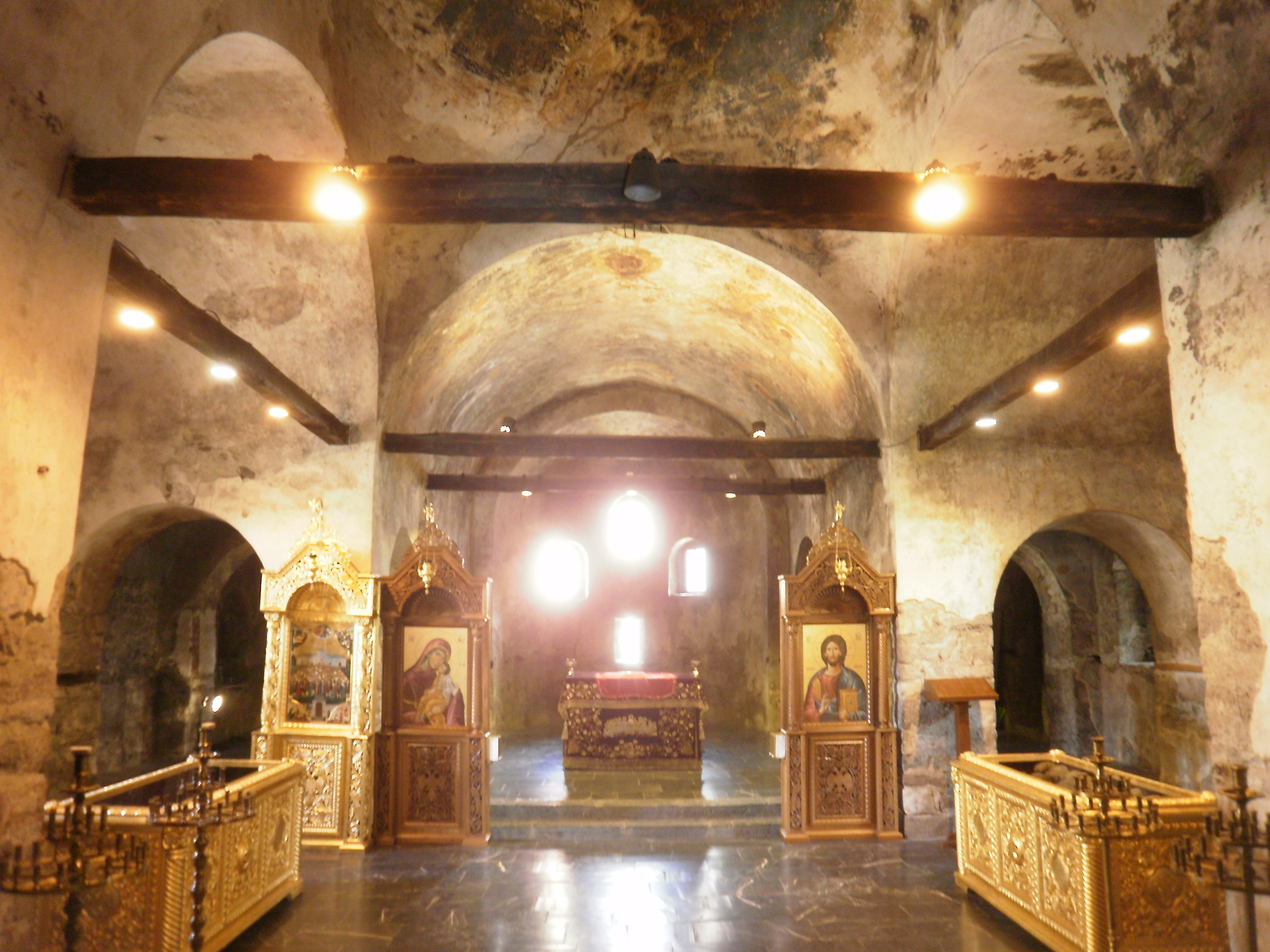 St. Nedelya church, Batak, Bulgaria.